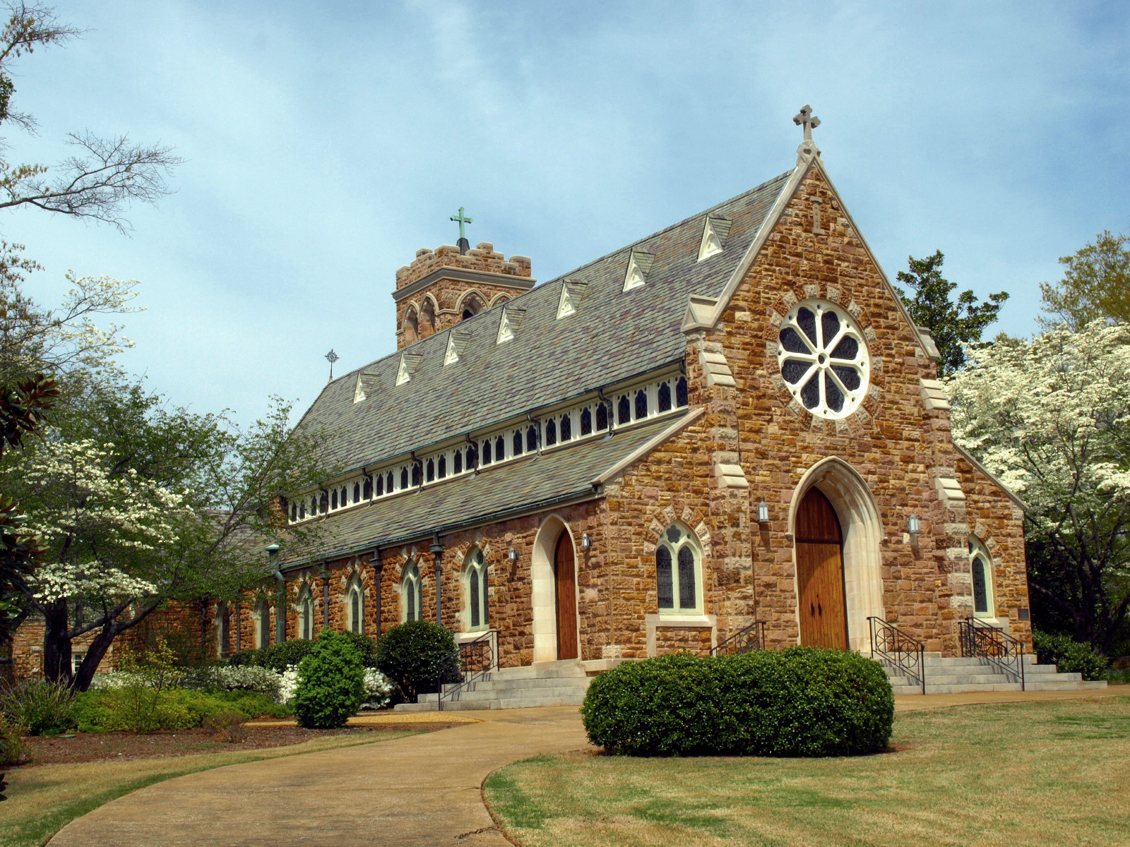 Grace Episcopal Church in Anniston, Alabama, listed on the National Register of Historic Places